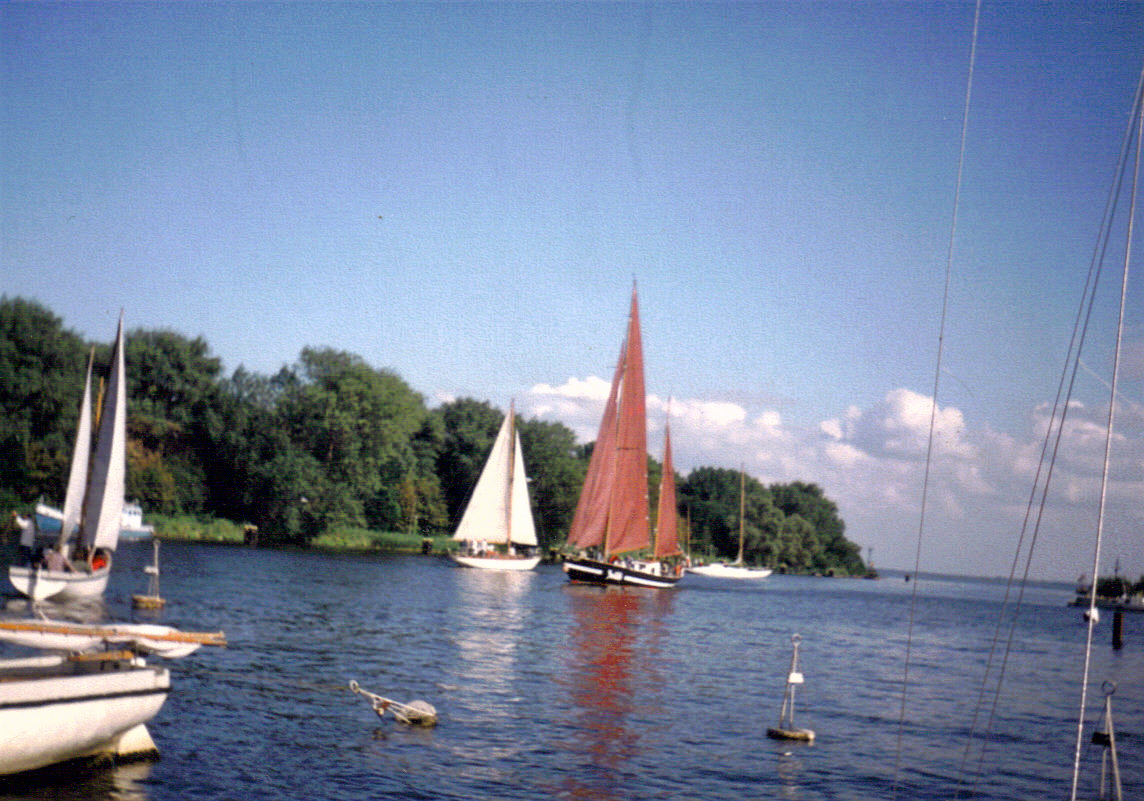 SY Jurand in Trzebiez (Marina), Poland